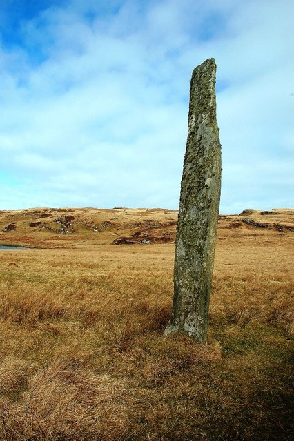 Islay's Tallest Standing Stone This impressive slender stone near Ballinaby Farm is 16 feet high. The name goes back to former times when the land here was held by an abbot. (Source: "Islay", by Norman S Newton)